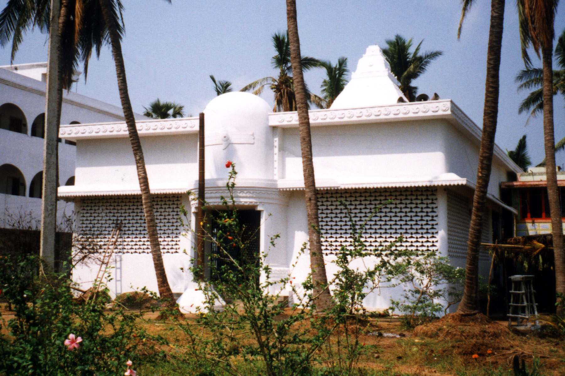 The temple at Adivarapupeta, the site where Shivabalayogi sat for almost ten of his twelve years of tapas, meditation in samadhi.